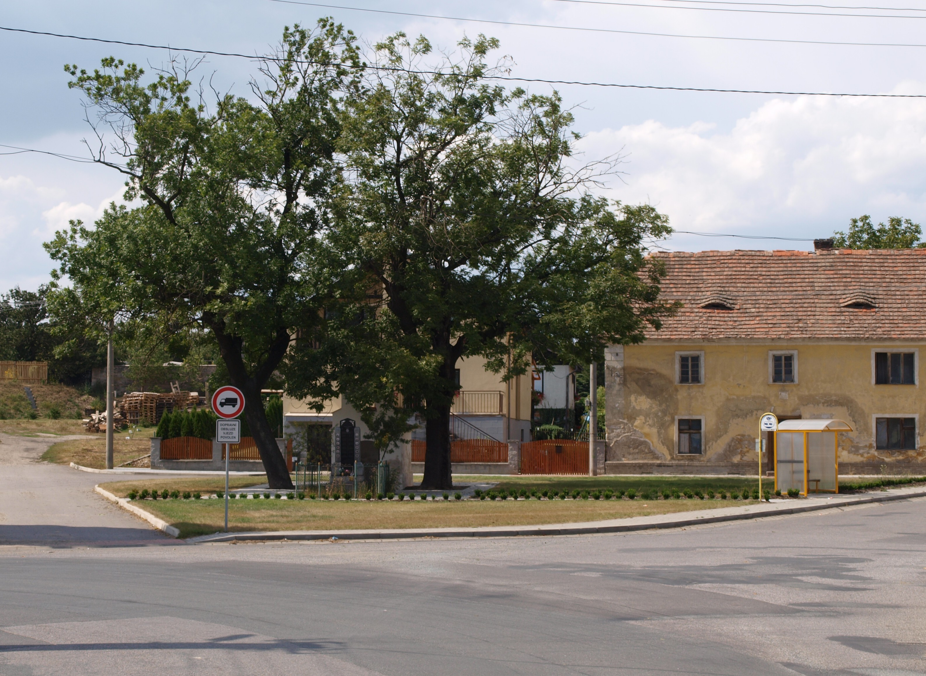 Village square, Kamenný Most, Kladno District, Czech Republic